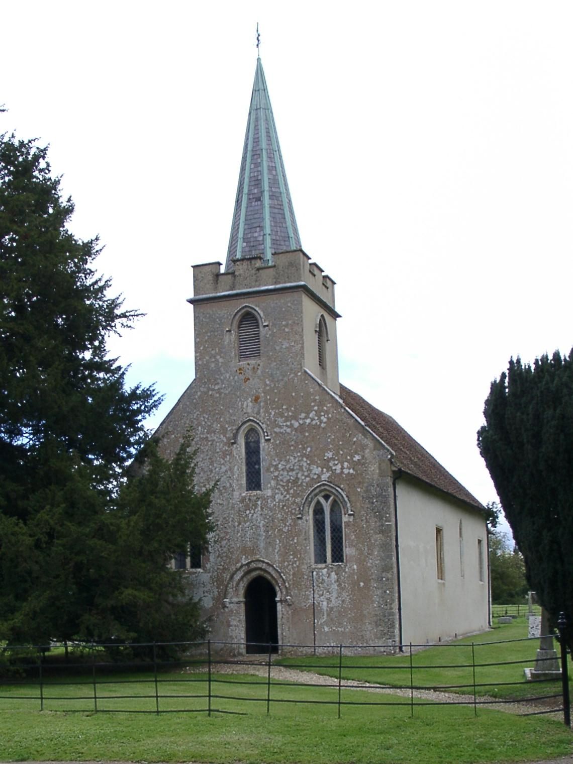 Steventon Church, where Jane Austen worshipped.